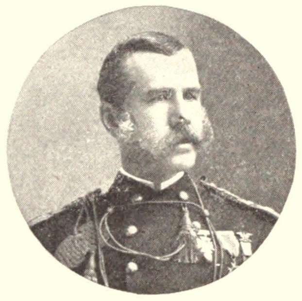 Second Lieutenant Robert G. Carter, United States Army, received the Medal of Honor for his actions in the Indian Wars.